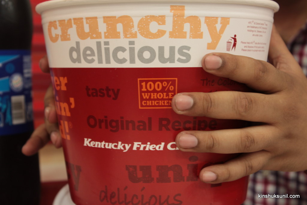 A bucket of KFC products at a KFC outlet in Sector 18, Noida, Uttar Pradesh.